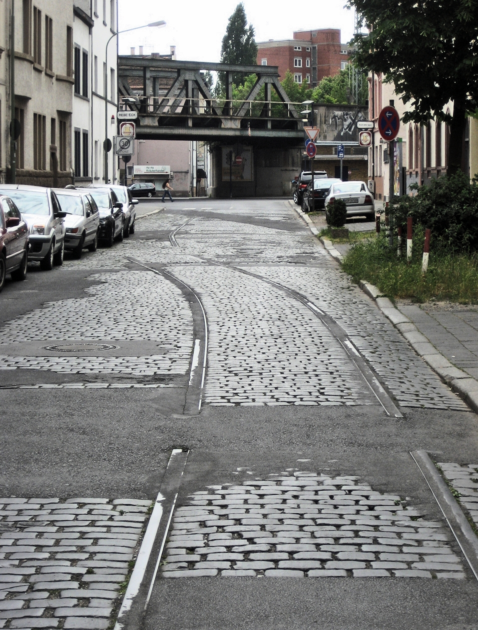 Former track of the Tram Offenbach in the Friedhofstr